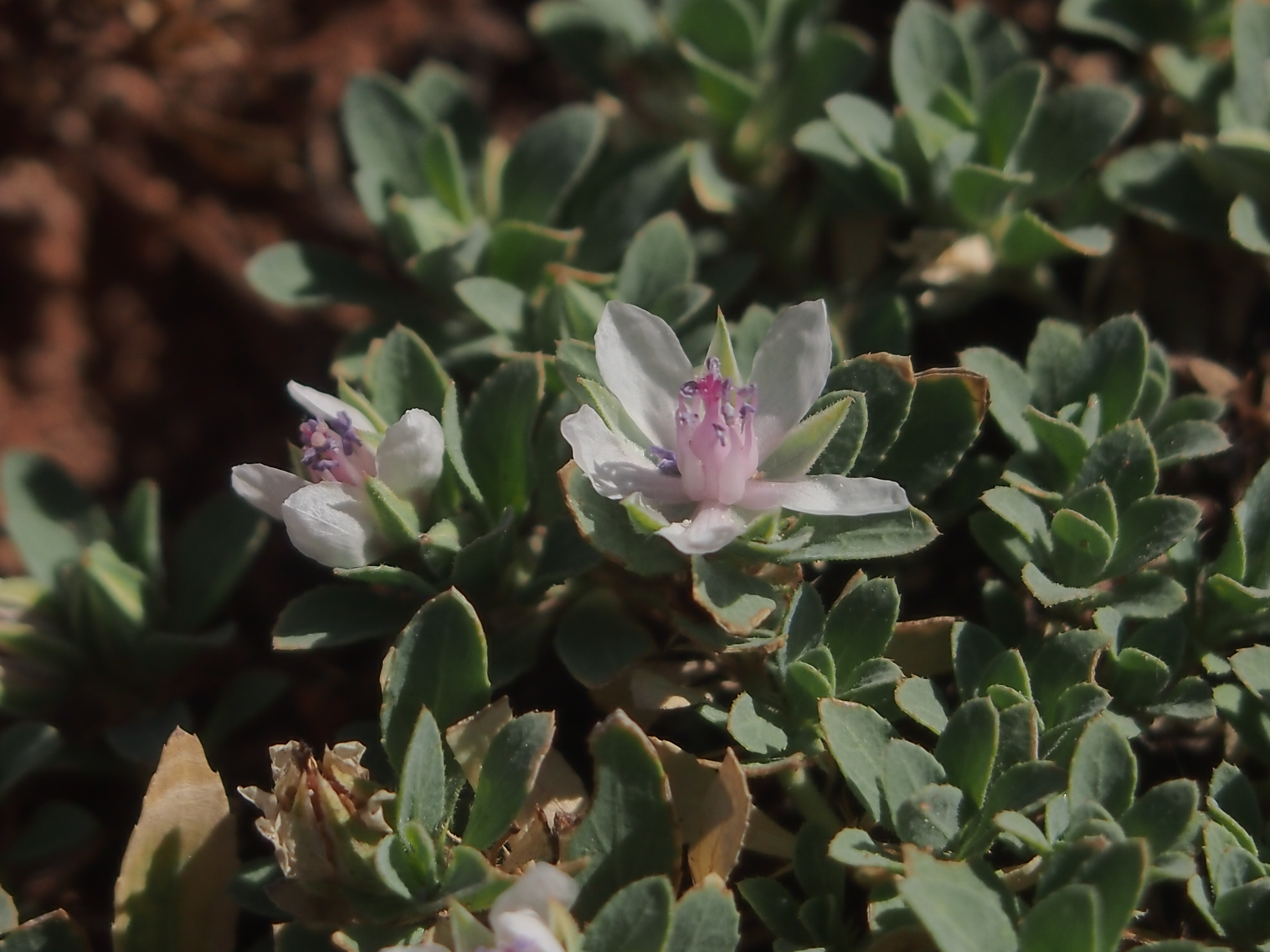 Bergia henshallii